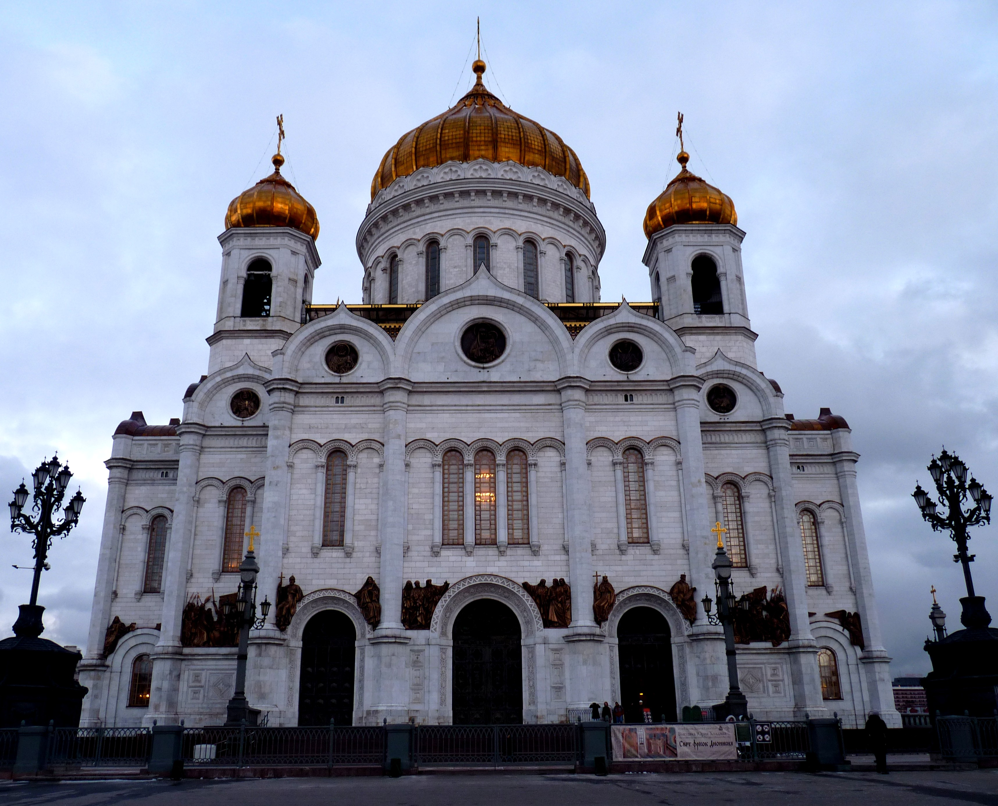 The Cathedral of Christ the Saviour (Russian: Храм Христа Спасителя, Khram Khrista Spasitelya) is a cathedral in Moscow, Russia, on the northern bank of the Moskva River, a few blocks southwest of the Kremlin. With an overall height of 103 metres (338 ft), it is the tallest Orthodox Christian church in the world.